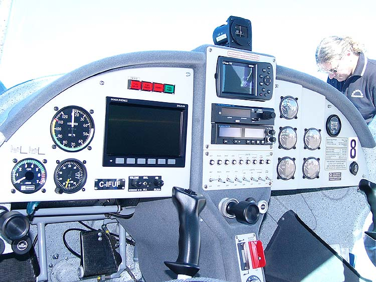 photo of a 3Xtrim 3X55 Trainer on 21 August 2006 at Peterborough, Ontario